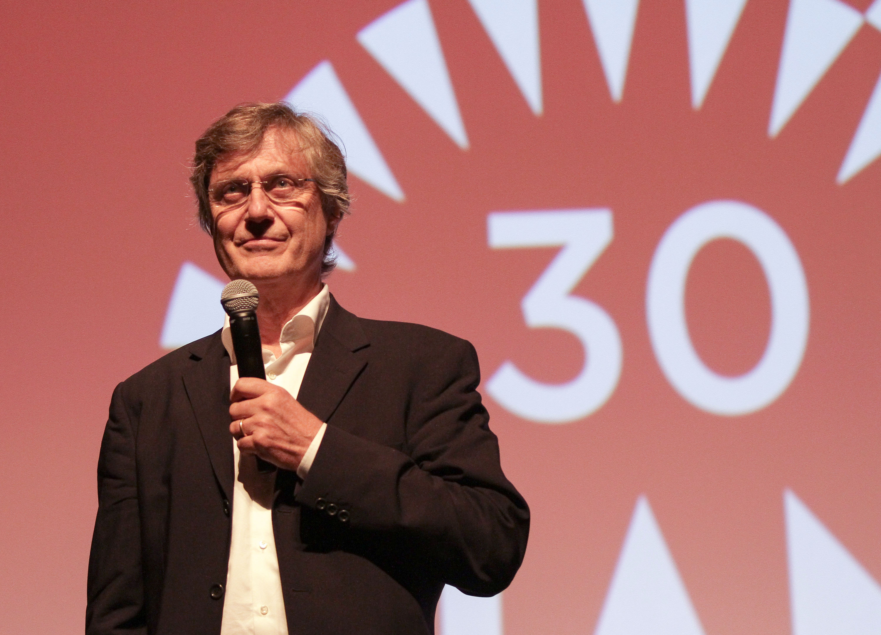 MIFF Career Achievement Tribute: Lasse Hallström, followed by THE HYPNOTIST at Olympia Theater at Gusman Center for the Performing Arts on March 3, 2013